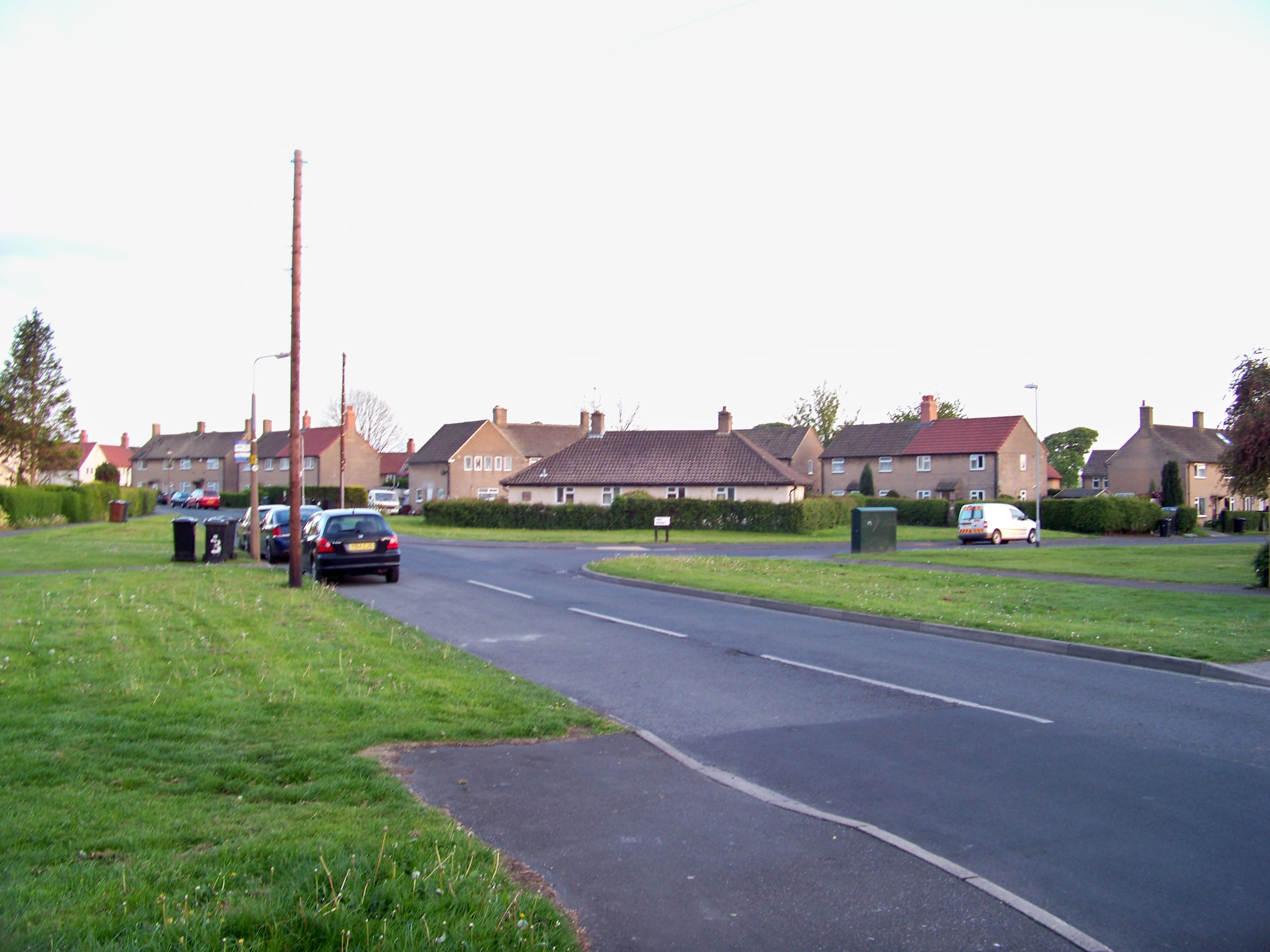 Looking down Third Avenue (from the Hallfield Lane end), the junction seen is that of First Avenue. Hallfield, Wetherby, West Yorkshire, UK. Taken on the Evening of the 11th May 2009.